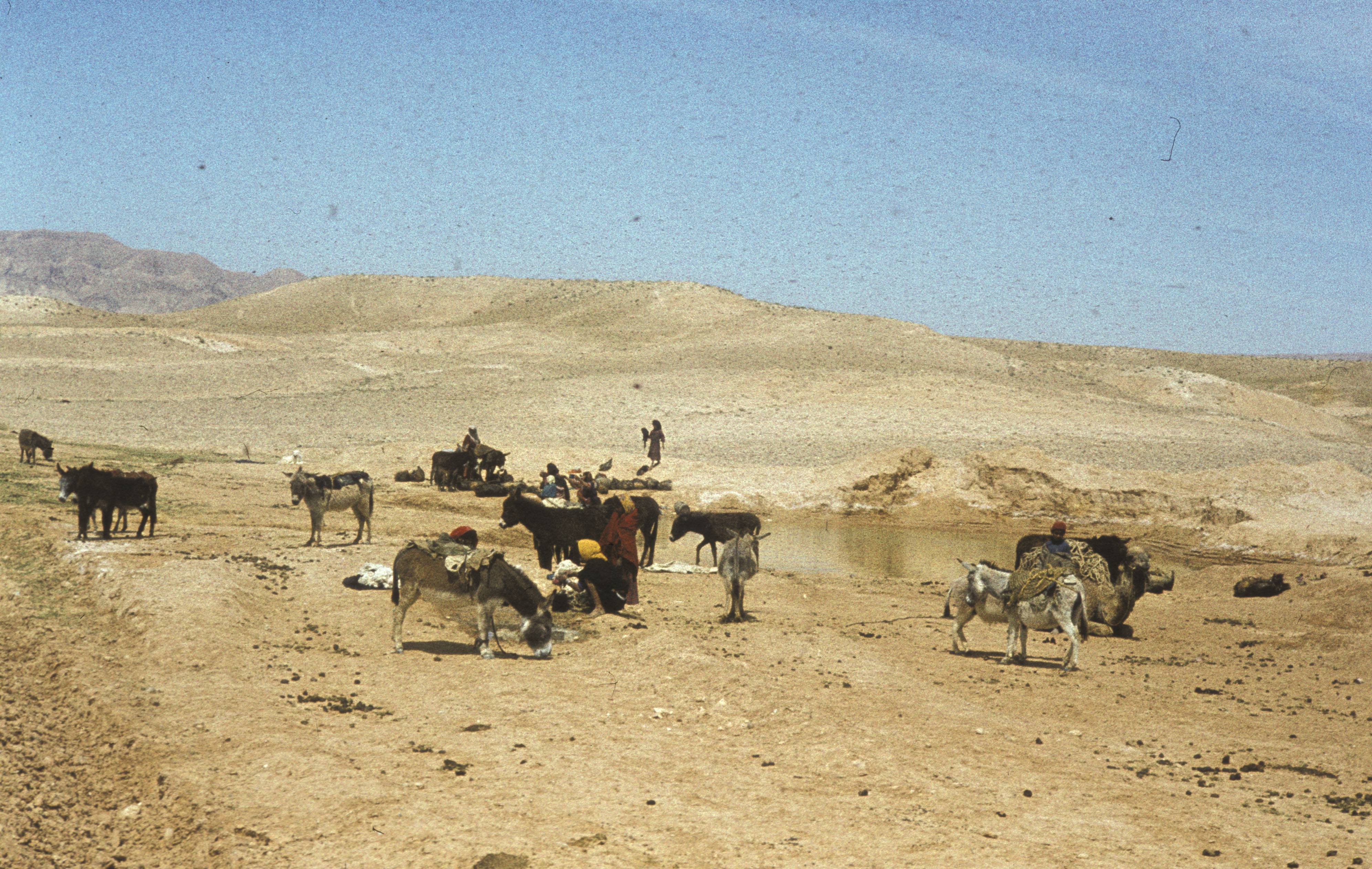 Tunisia (1960, locality unknown)